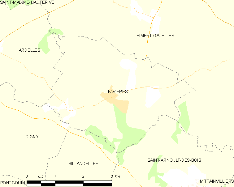 .Map commune FR insee code 28147.png